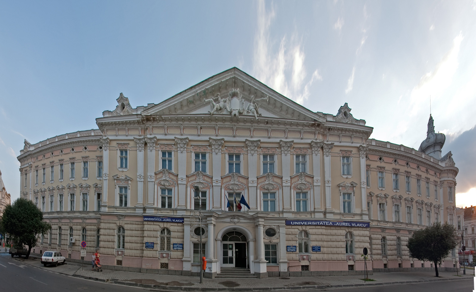 Aurel-Vlaicu-University in Arad, Romania